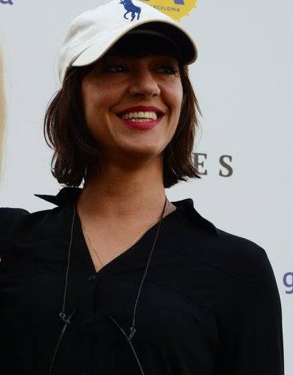 Barbara Crampton & Ana Lily Amirpour - REPLACE & THE BAD BATCH